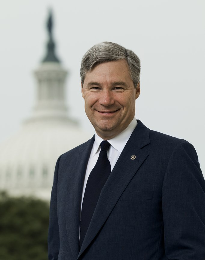 Official portrait of Senator Sheldon Whitehouse from Rhode Island.